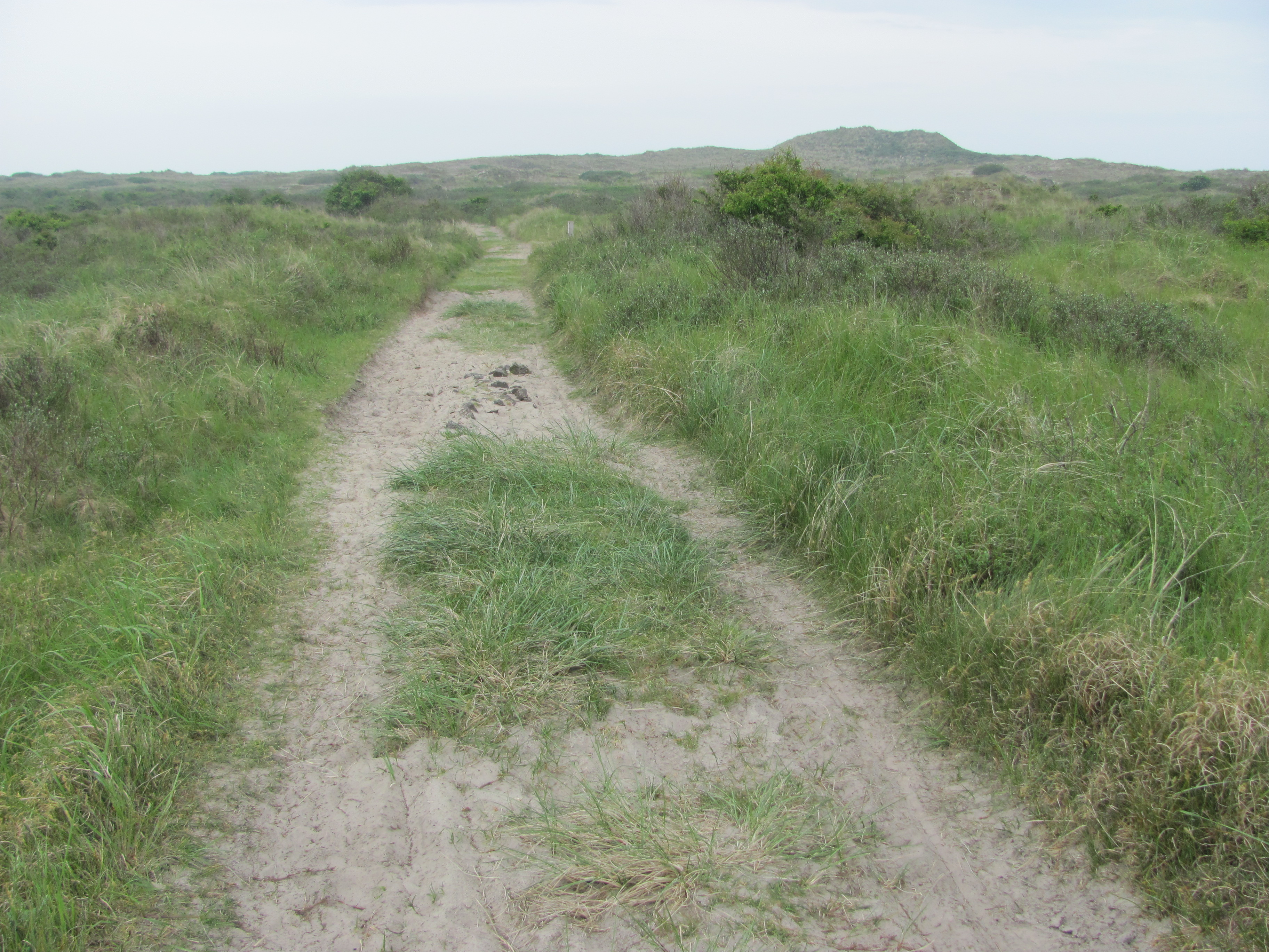 Former alignment of Ostlandbahn, Borkum, Germany